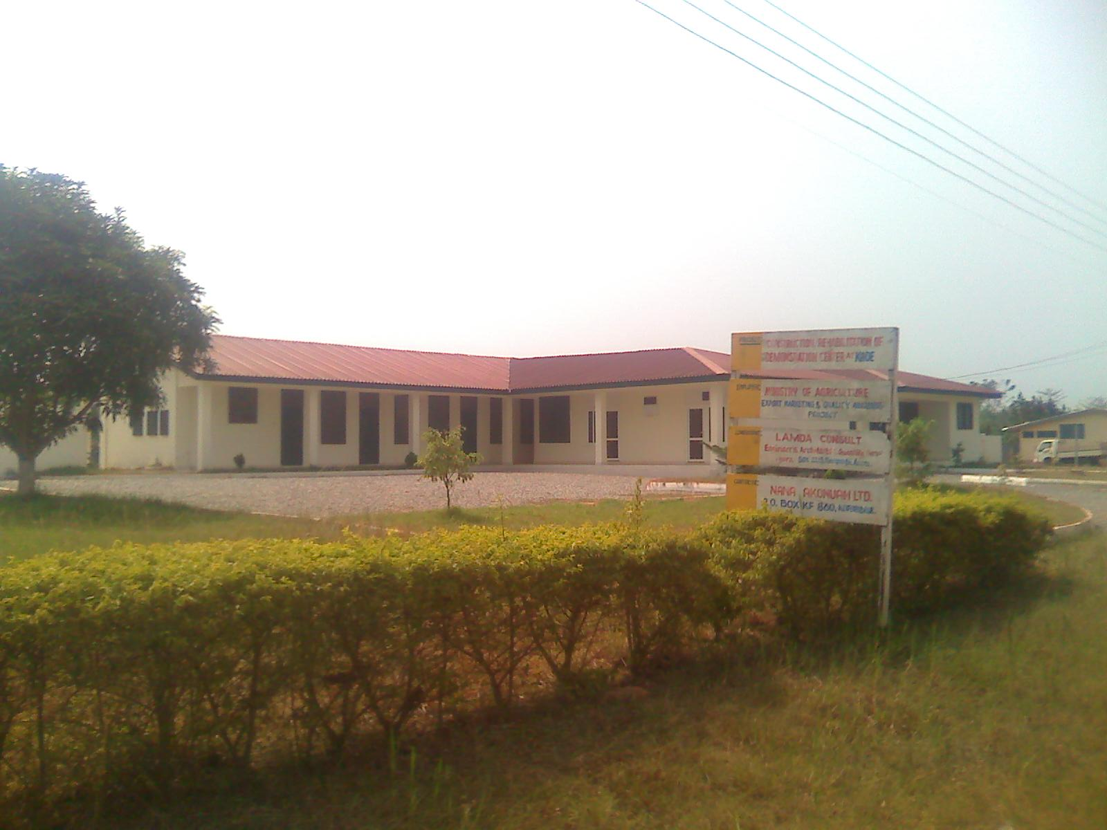 Kade Agricultural Research Center